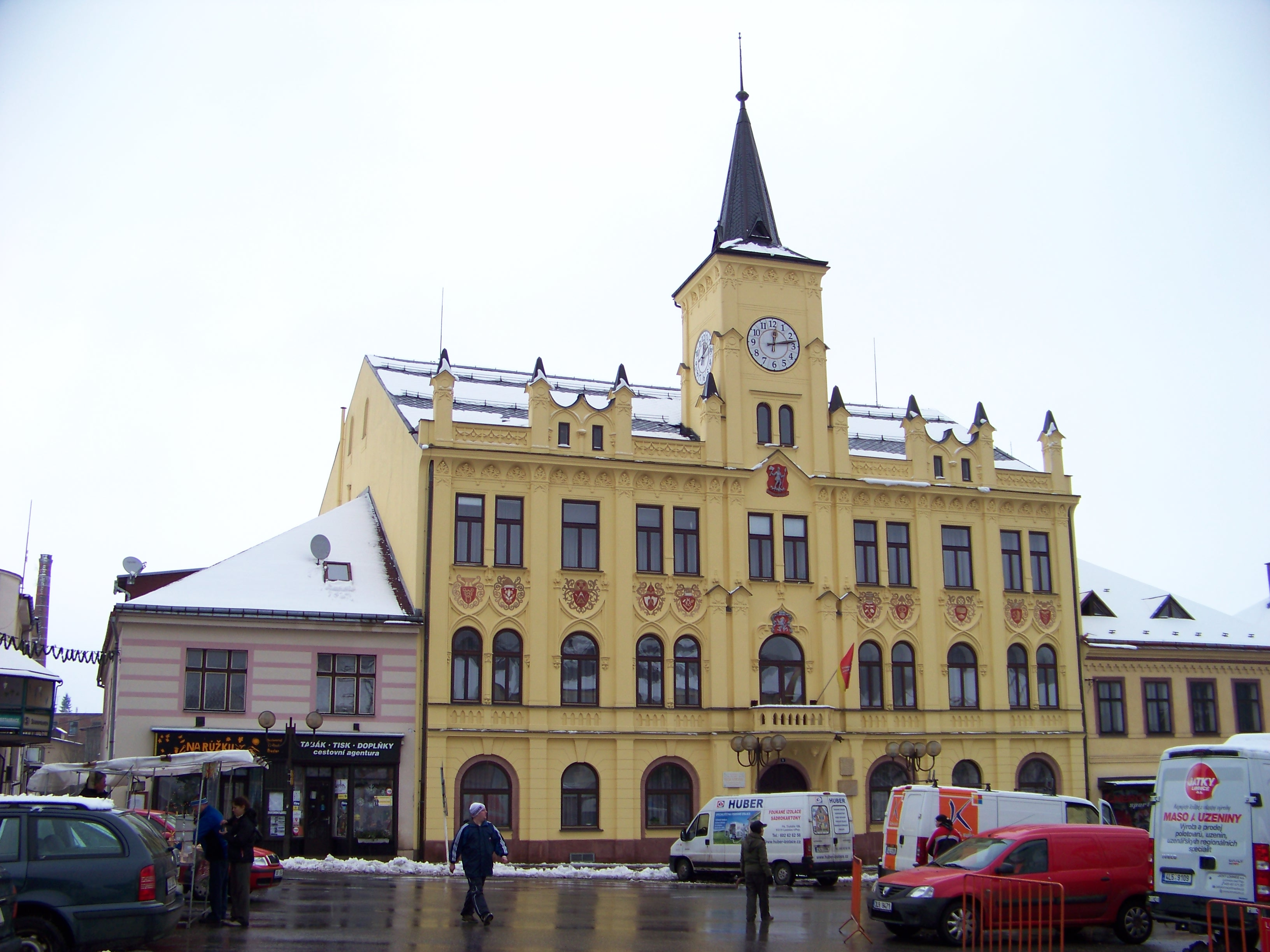 Lomnice nad Popelkou, Semily District, Liberec Region, Czech Republic. Husovo náměstí, a town hall. - OpenStreetMap (Info)